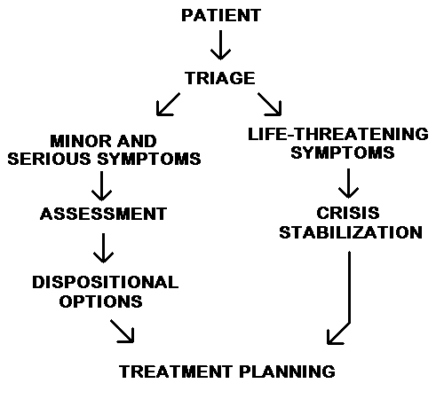 Process of emergency psychiatric intervention from Bassuk, E.L. & Birk, A.W. (1984). Emergency Psychiatry: Concepts, Methods, and Practices. New York:Plenum Press